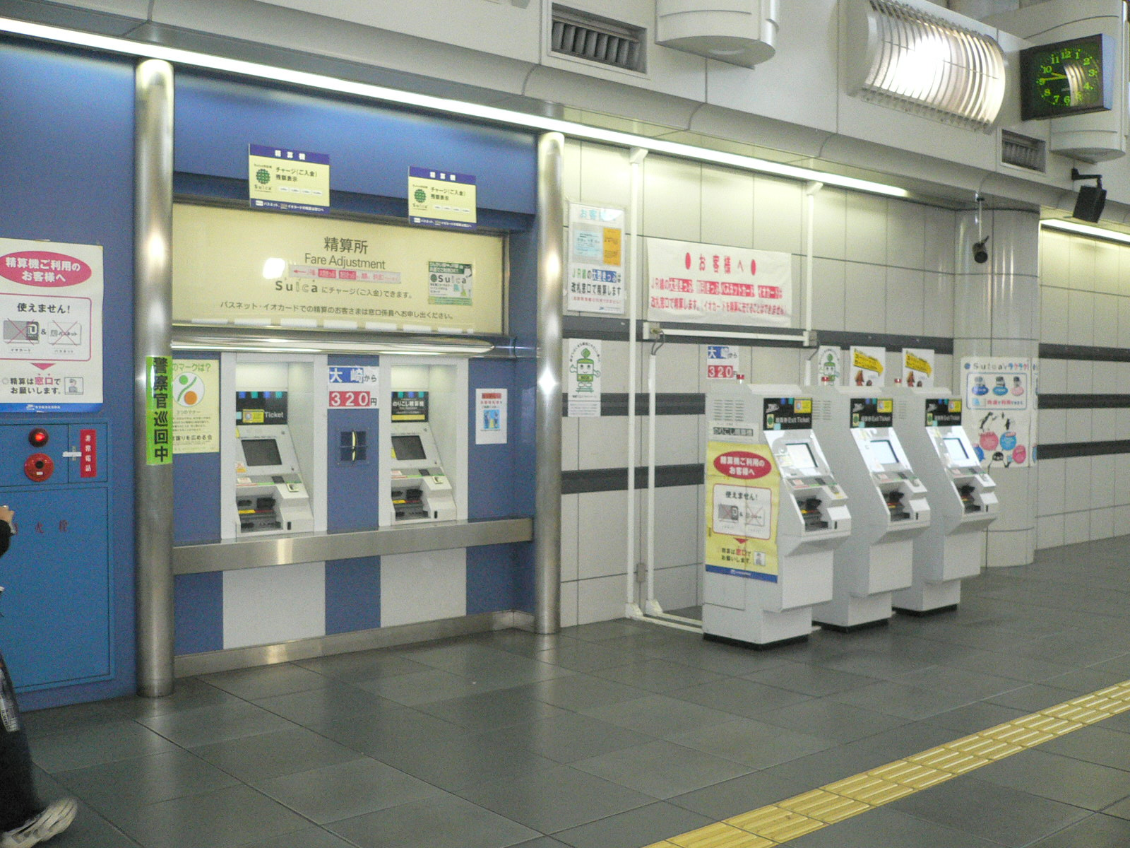 Fare adjustment machine in Kokusai-Tenjijō Station